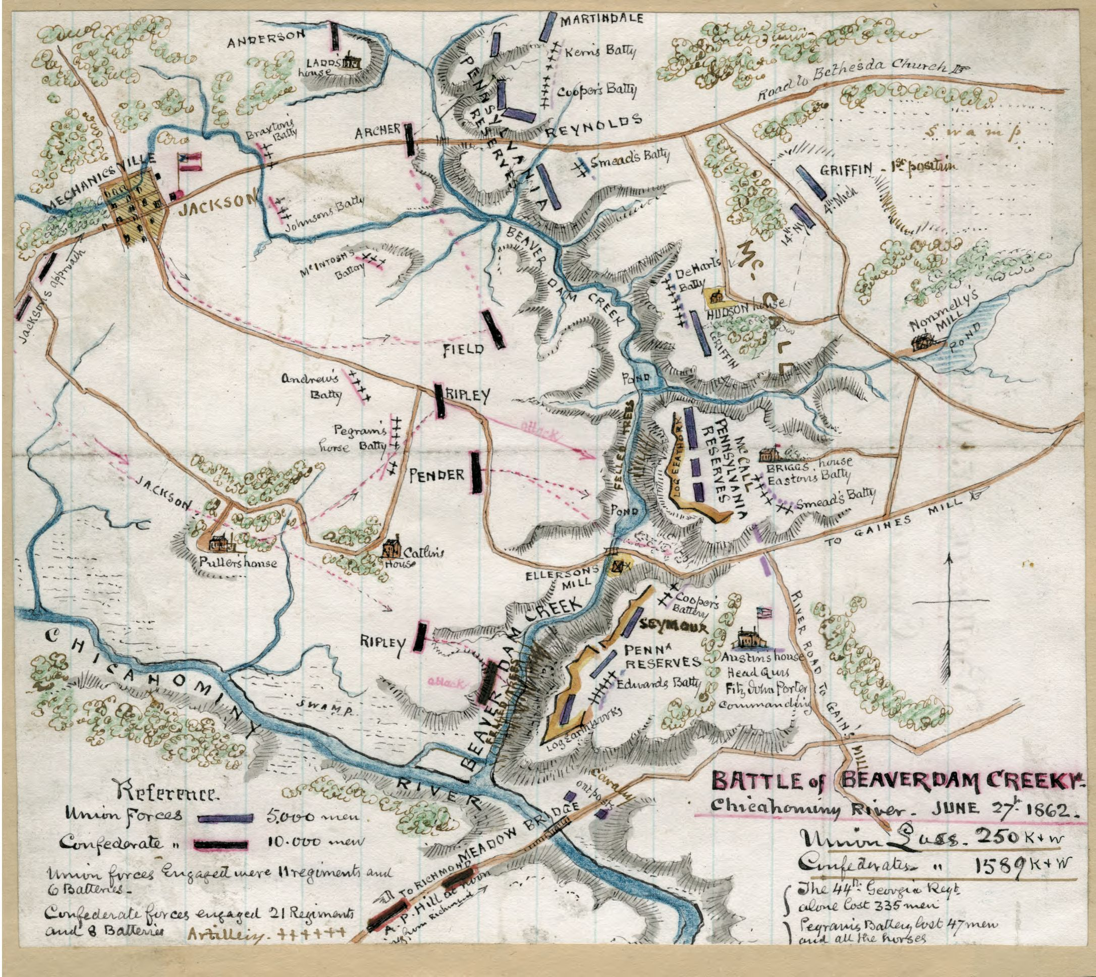 While dated June 27th, this map depicts an engagement that took place the day previously, on the second day of the Seven Days' Battles. It shows the area of Hanover County that includes Mechanicsville, with the Chickahominy River to the south of the image and Beaverdam Creek with the Union and Confederate armies located on either side. (Robert Knox Sneden)